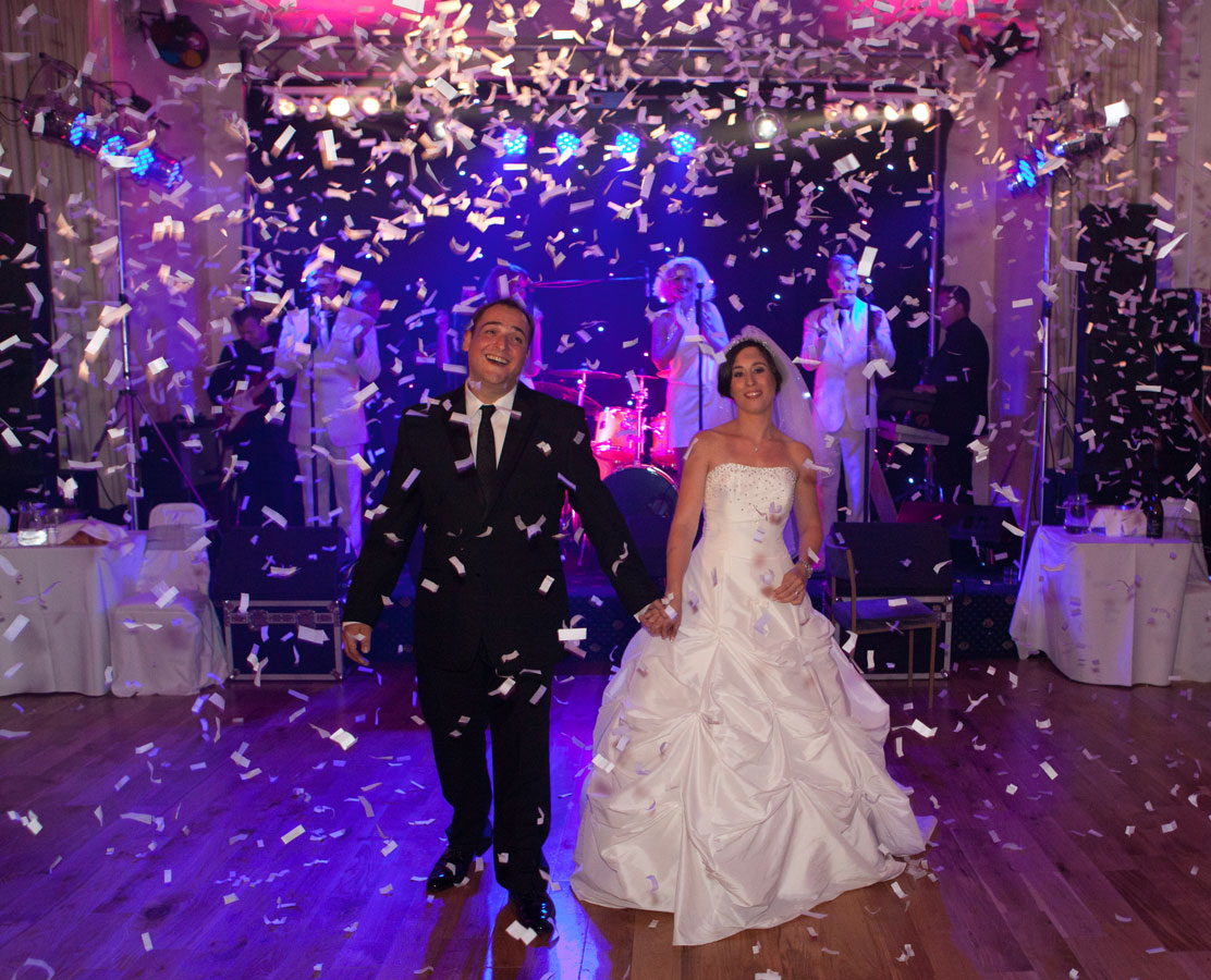 Confetti Canon explodes during a wedding couple's first dance